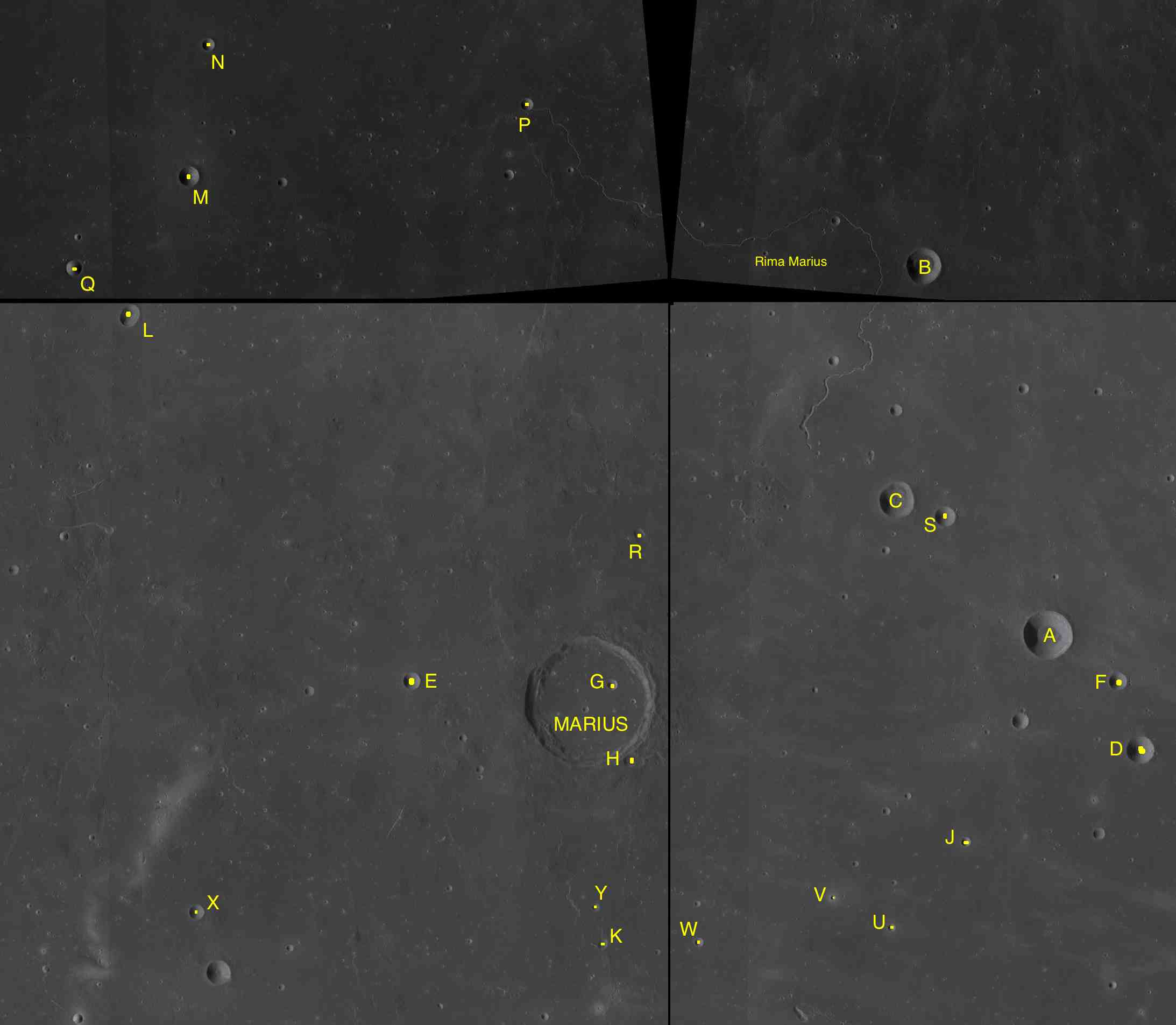 Parts of the charts LAC-38, LAC-39, LAC-56 and LAC-57 used for the presentation